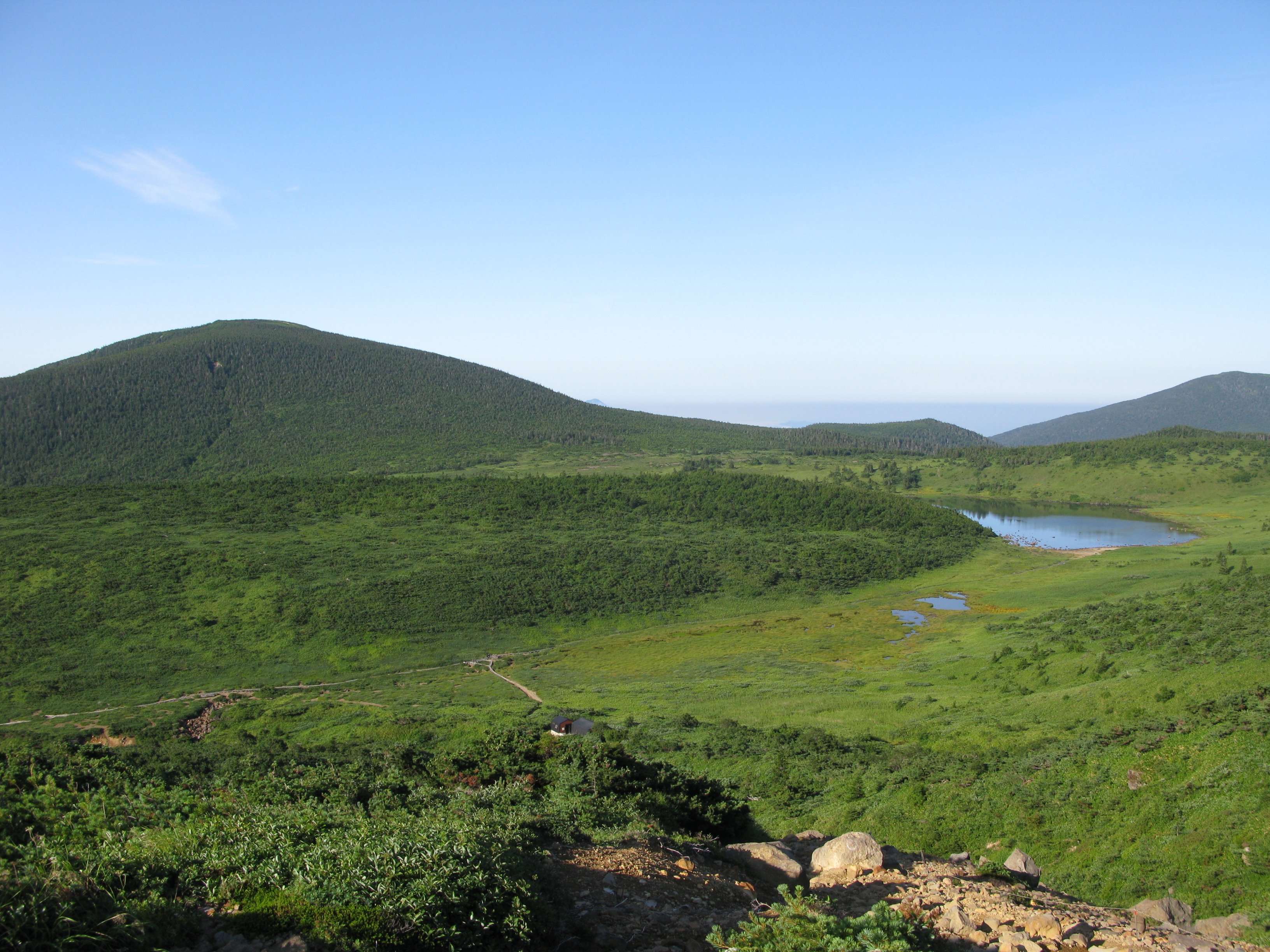 Mt.Higashiazuma-yama,from Mt.Issaikyou,Fukushima pref.,Japan